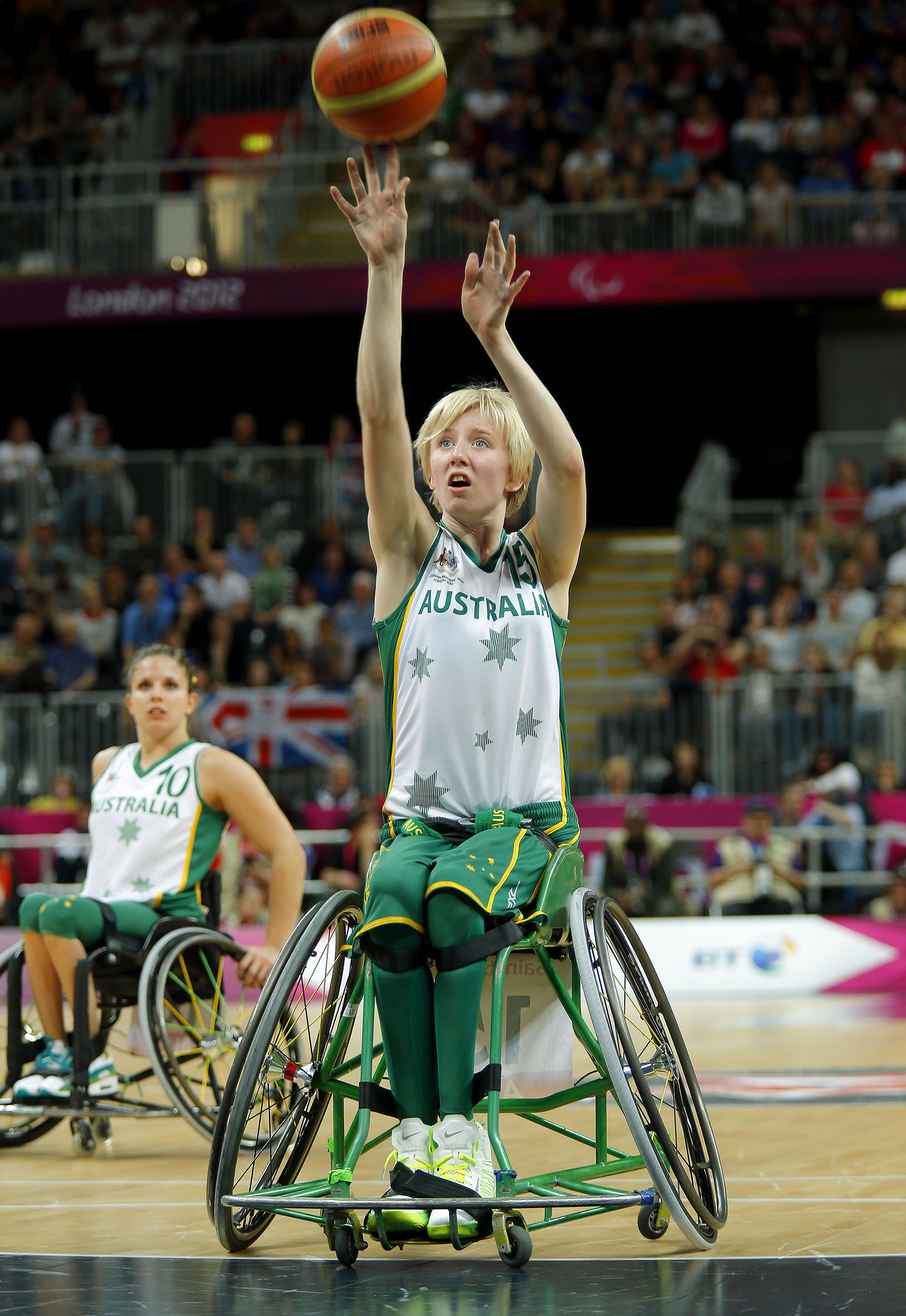 Photograph of Australian Paralympic team member Amber Merritt at the 2012 Summer Paralympic Games in London. Clare Nott looks on.